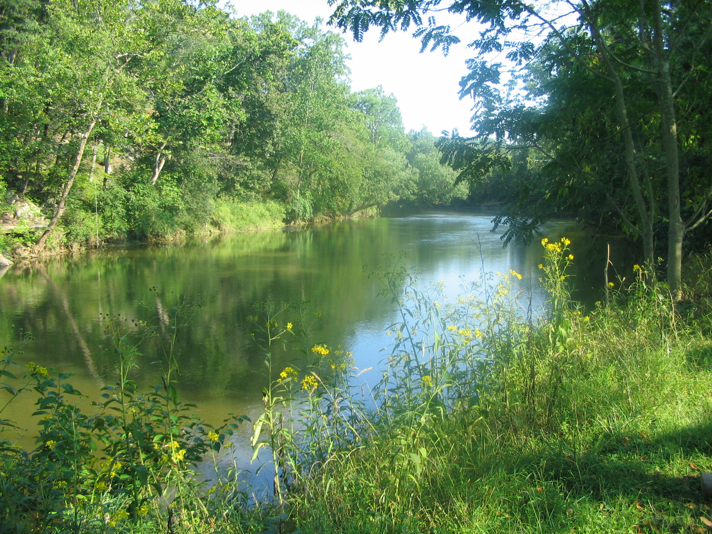 Capapon River, relatively high water level.